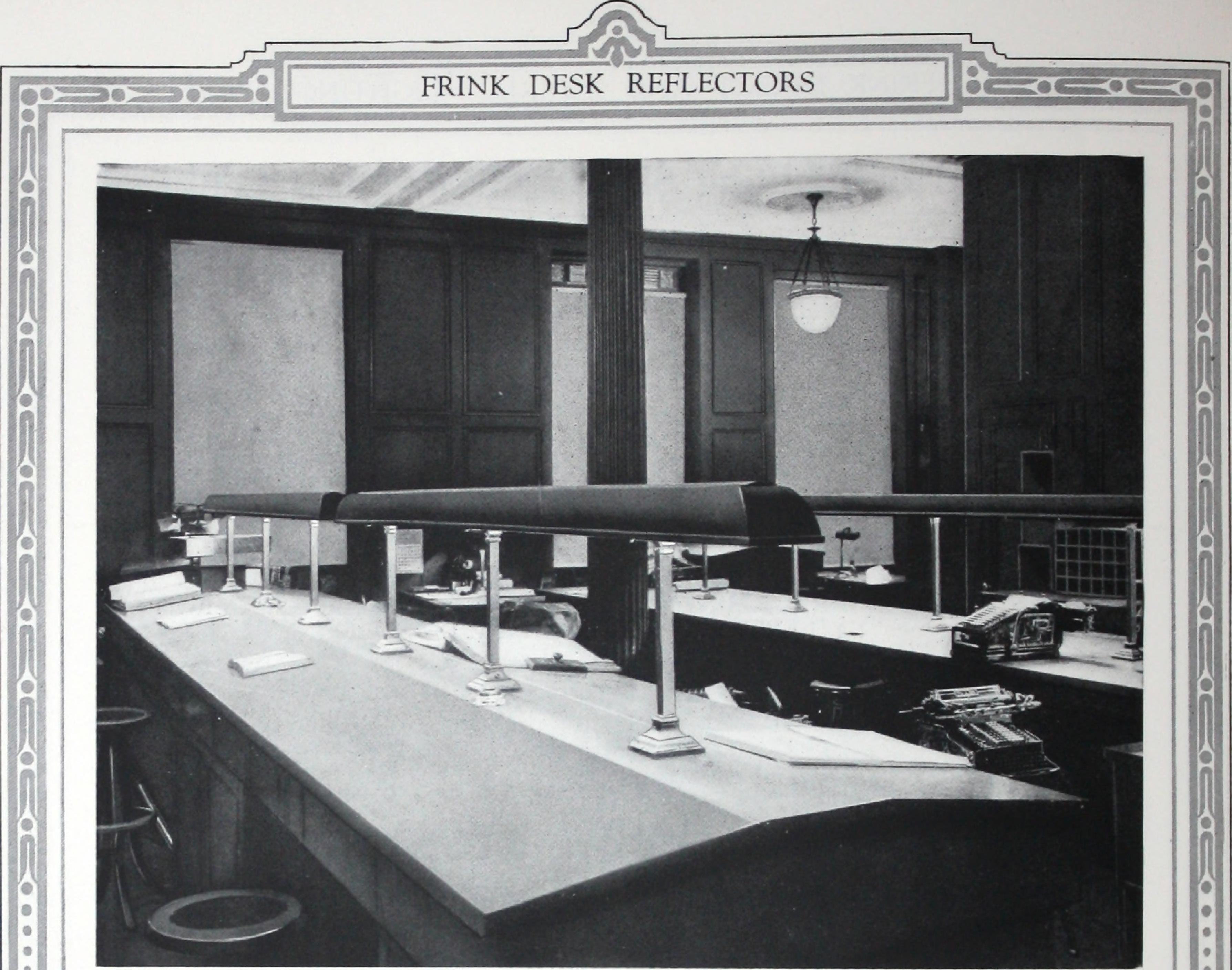 Identifier: I.p.FrinkReflectorsDesignerAndManufacturerOfScientificAndArtistic Title: I.P. Frink reflectors designer and manufacturer of scientific and artistic lighting specialties ... Year: 1921 (1920s) Authors: I. P. Frink, Inc. Subjects: lighting Division 26 light fixtures fluorescent lights Publisher: I. P. Frink, Inc. Text Appearing Before Image: 8 8 ! 11 Text Appearing After Image: MECHANICS AND METALS NATIONAL BANK of the City of New York This bank is one of the leading financial institutions of the United States andhas one of the largest and best equipped banking rooms available, covering an areaof approximately 10,500 square feet. The scientific illumination of the working surfaces situated within the variousparts of this area was designed to meet the most exacting conditions, each desk,counter and table receiving individual treatment. A lighting system for a bank of this character must work itself into thedetail of the equipment and not detract from the dignitv and simplicity, and berich but not gaudy. The prevailing finish of the interior of this particularinstallation is Old English Oak; consequent^ the entire Frink equipment offixtures and reflectors for the bank screens, desks, etc., made of cold-drawn bronze,statuary finish. The Frink Linolite 25 watt Mazda lamp was chosen as the source of lightfor all fixtures. The very efficient manner in which the ra